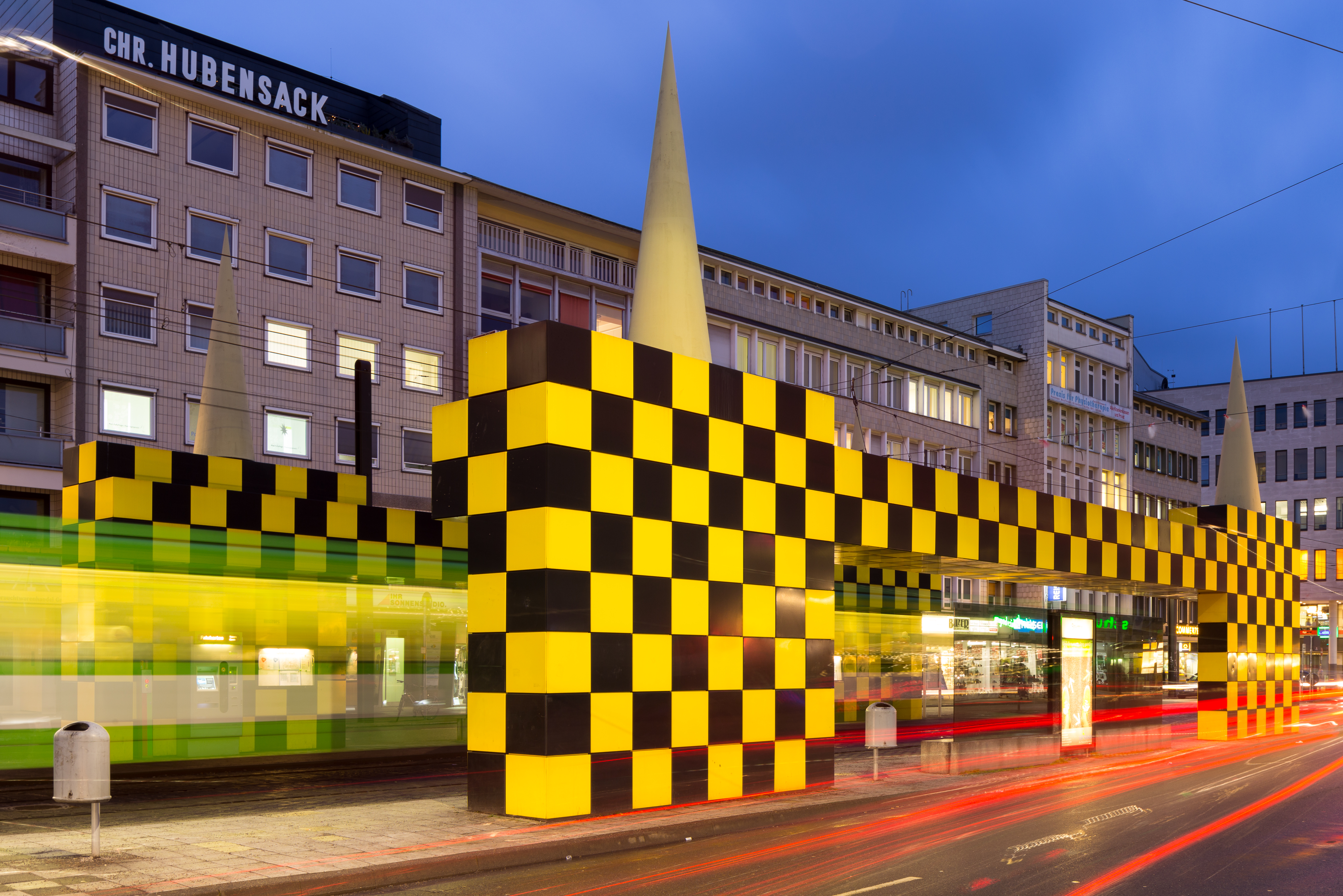 Tram station Steintor, designed by the italian Alessandro Mendini as part of the BUSSTOPS art project. The station is located at Kurt-Schumacher-Strasse in Mitte quarter of Hannover, Germany.